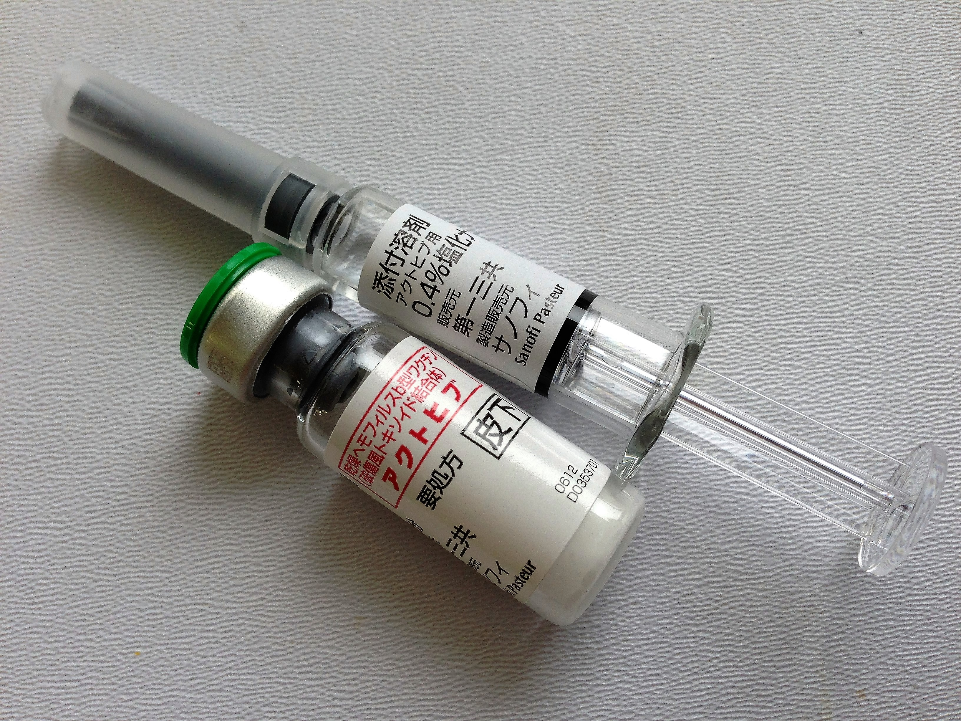 ActHIB is a vaccine indicated for the prevention of invasive disease caused by Haemophilus influenzae type b. ActHIB is approved for use in children 2 months through 5 years of age JAPAN 2016